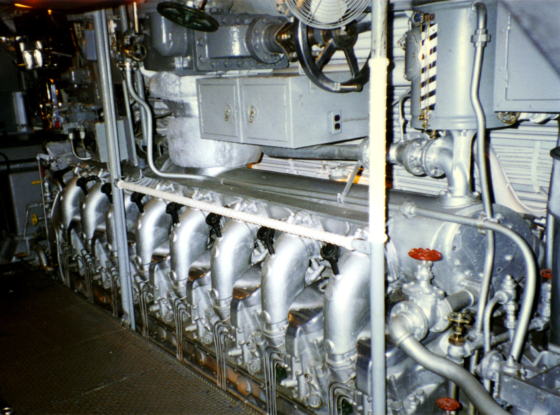 General Motors Model 16-248 V16 diesel engine installed in the USS Bowfin at Pearl Harbor